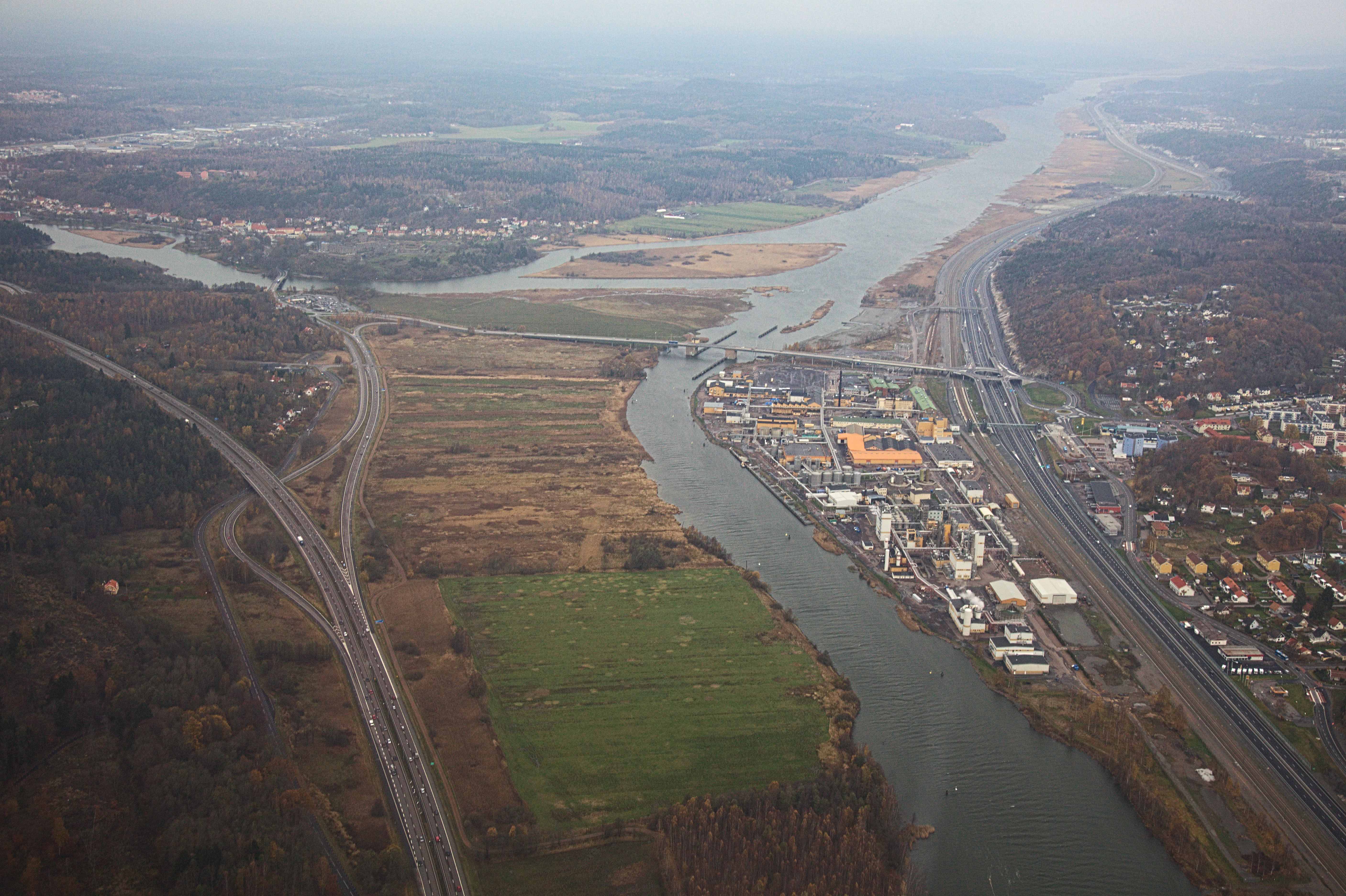 Photo taken on a helicopter over Gothenburg